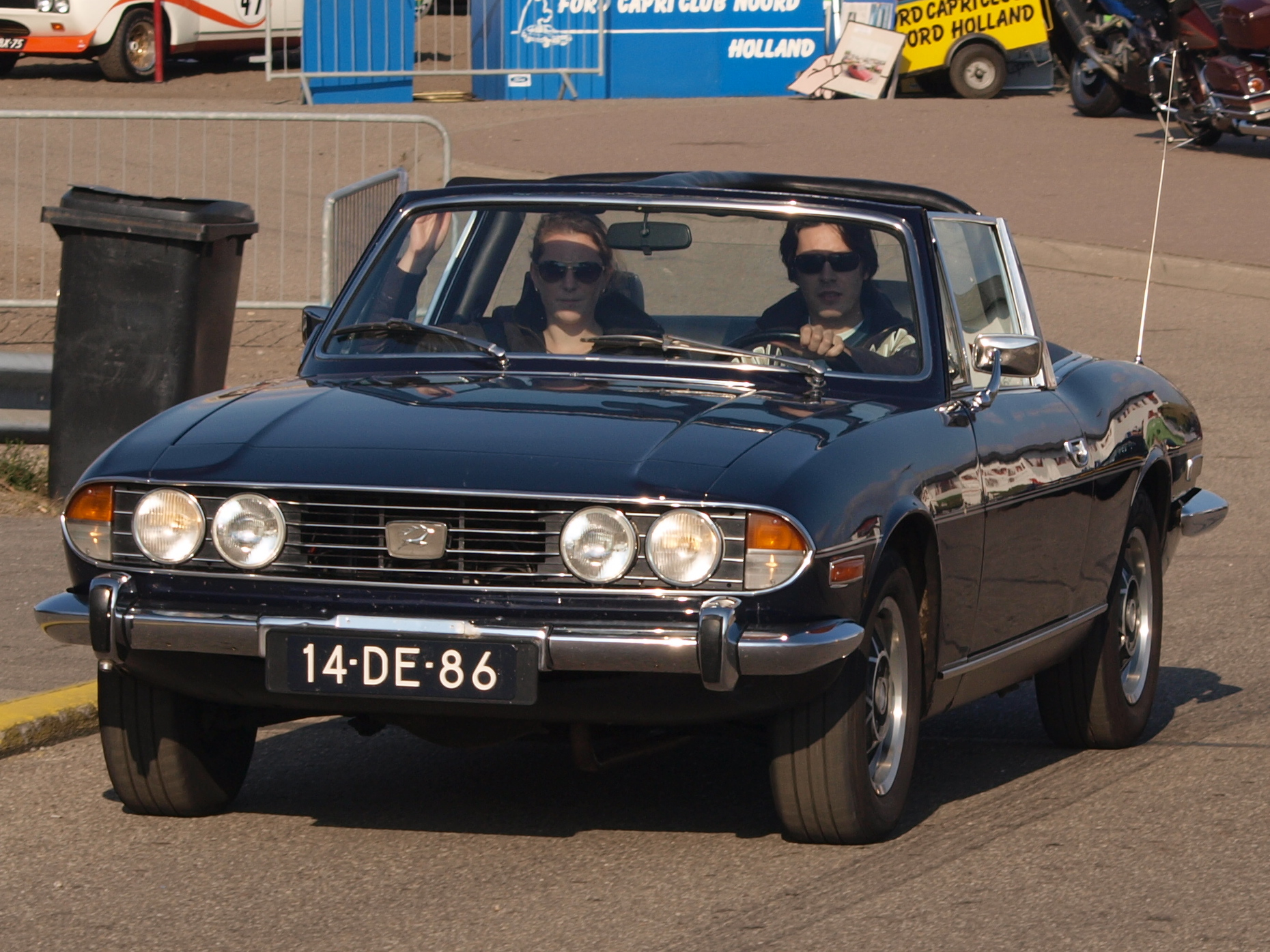 Photographed at the Nationaal Oldtimer Festival Zandvoort 2009, The Netherlands. OLYMPUS DIGITAL CAMERA